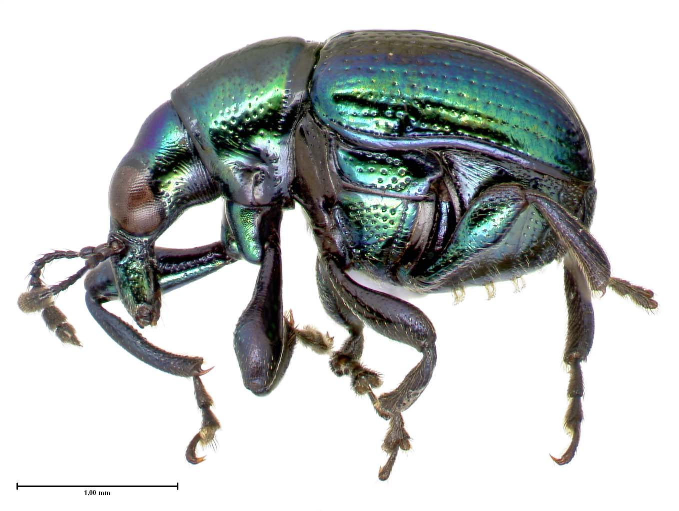 Euops prismae Riedel, allotype (female), habitus in lateral aspect.